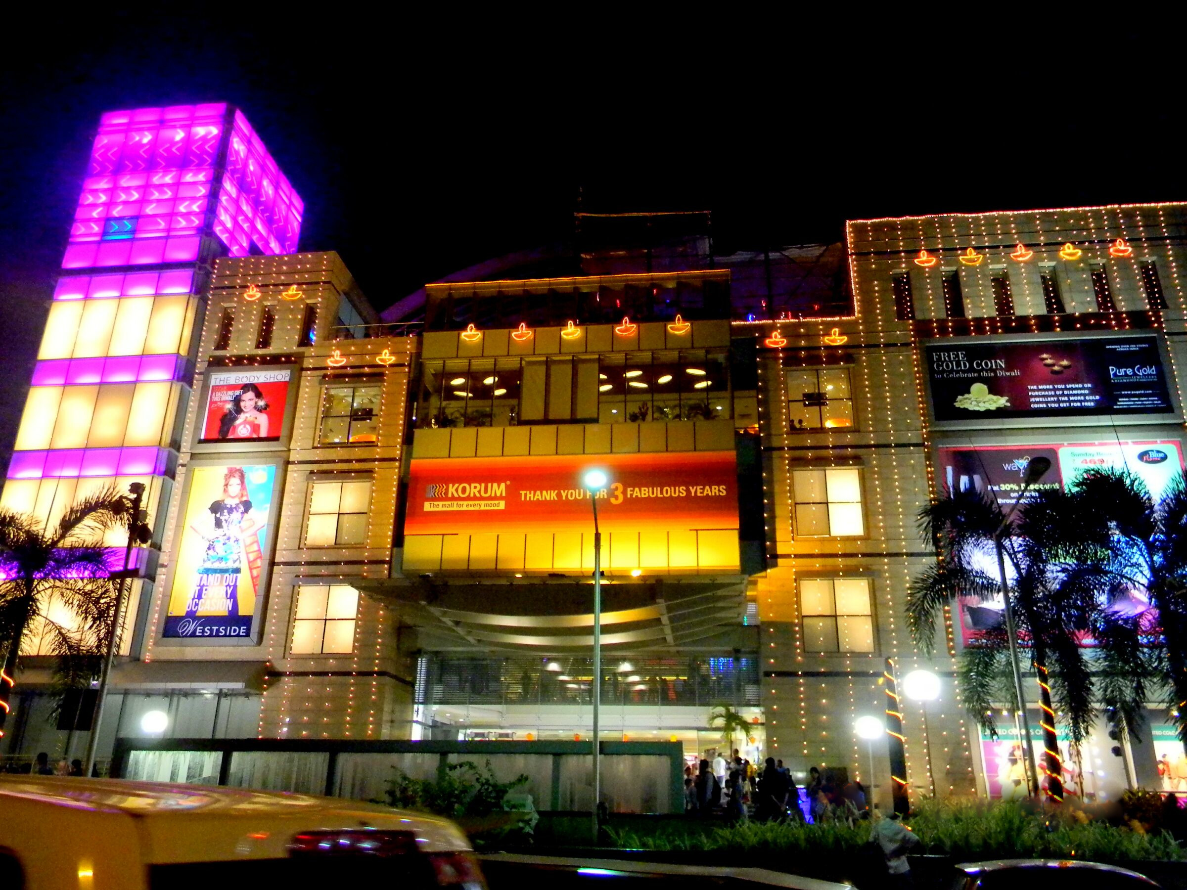 Korum Mall, Thane West, In Diwali Celebration